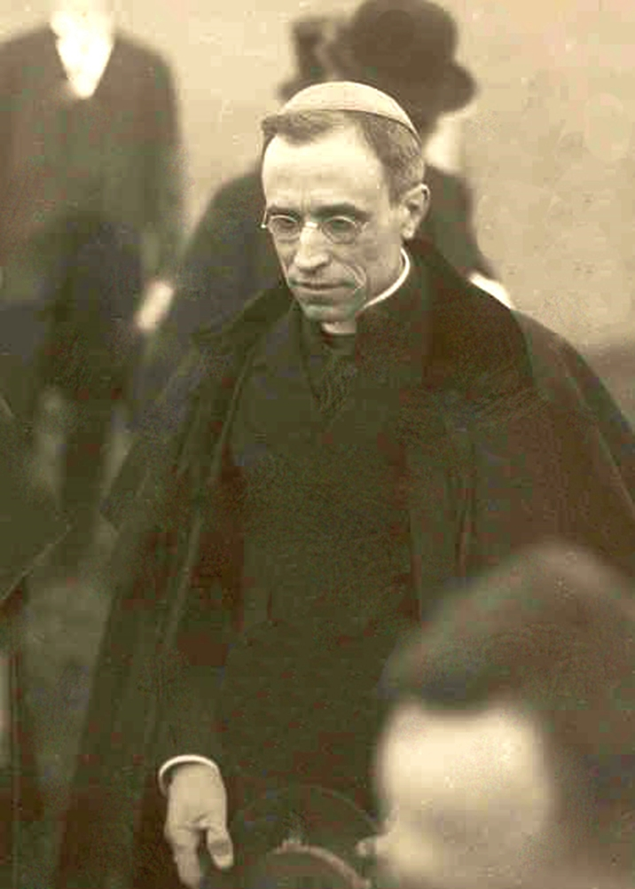 Eugenio Pacelli, nuncio in Bavaria Pacelli visits a group of bishops